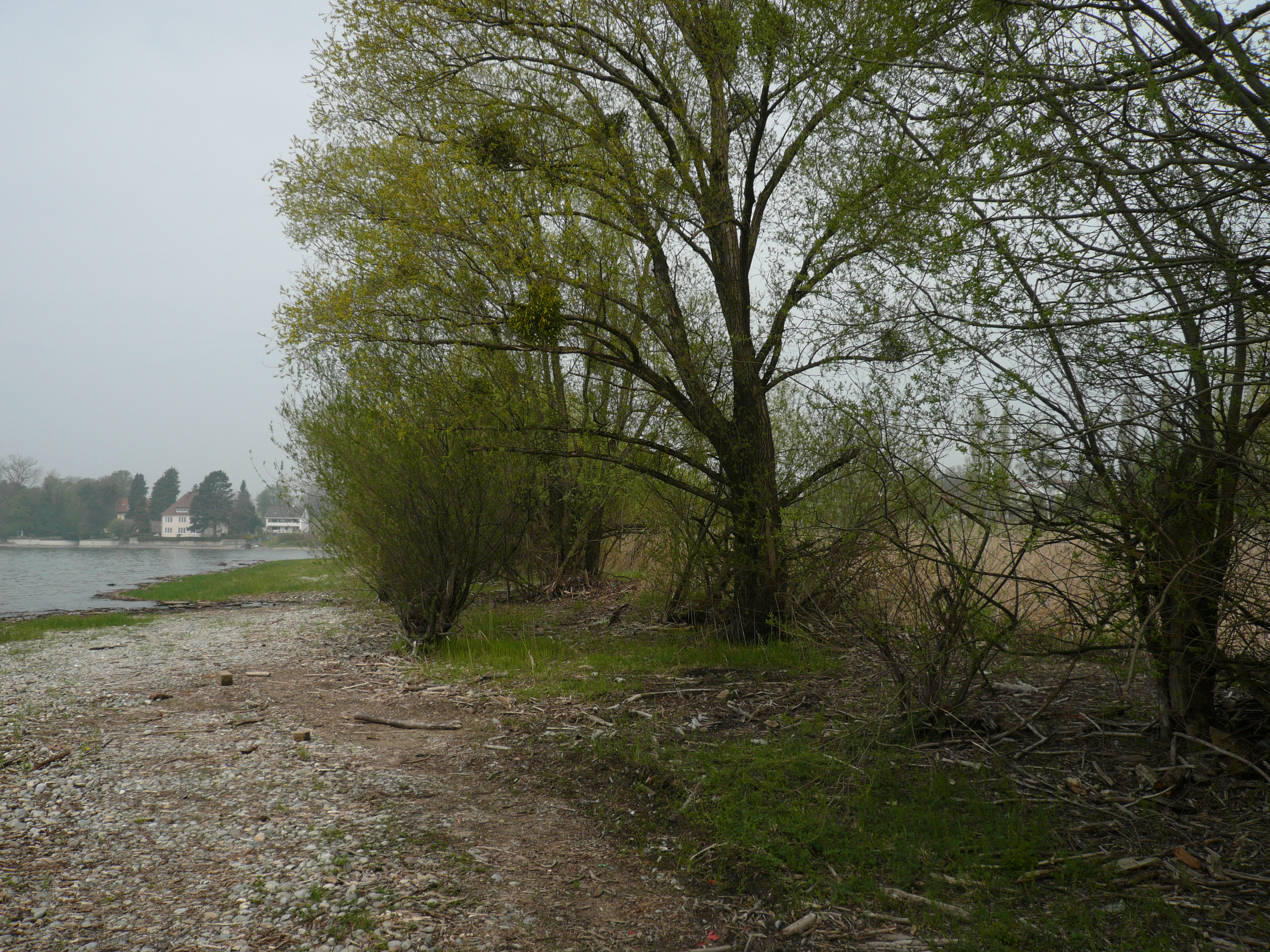 Natural reserve Wasserburger Bucht